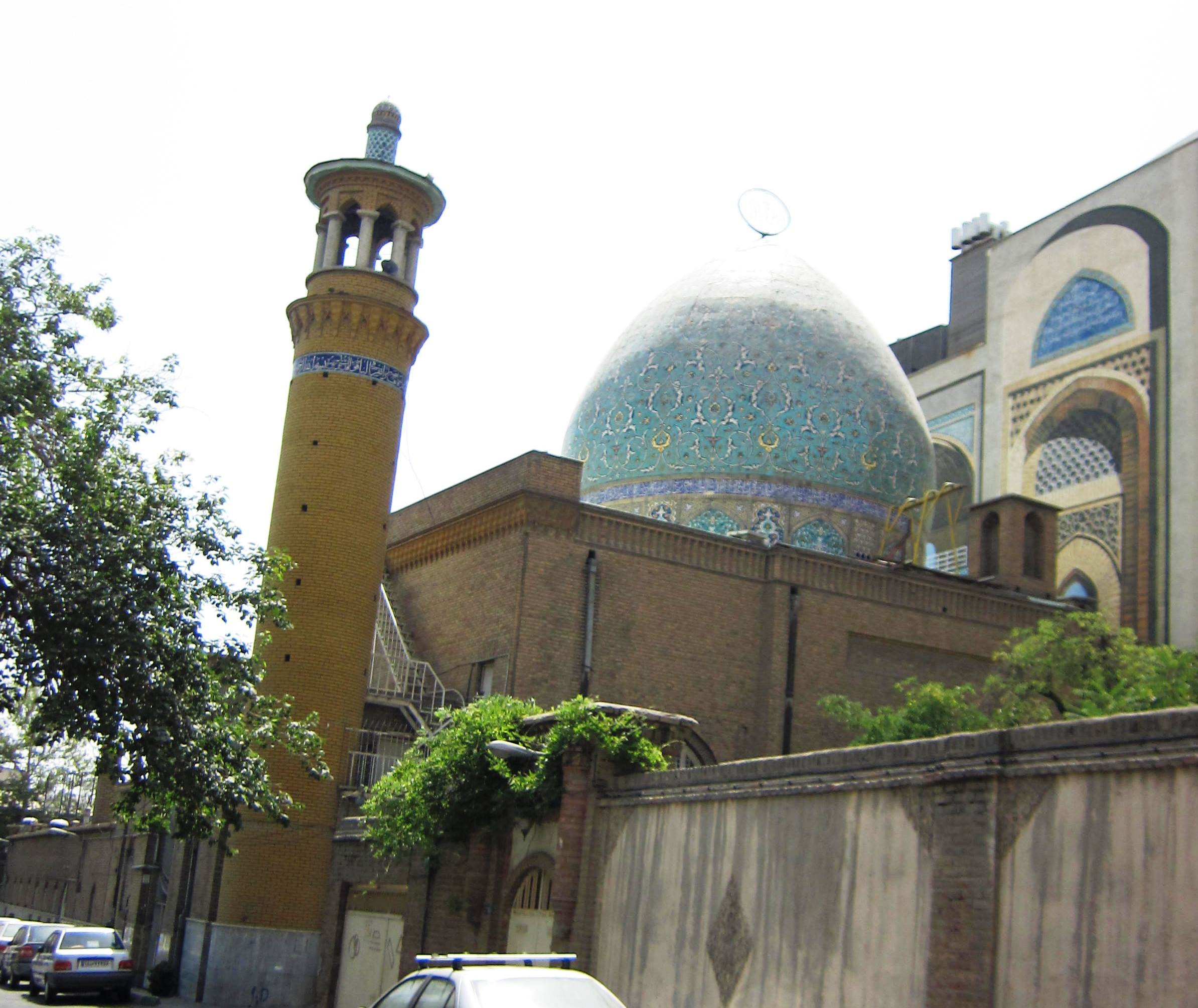 Fakhr al-Dawla mosque, Tehran